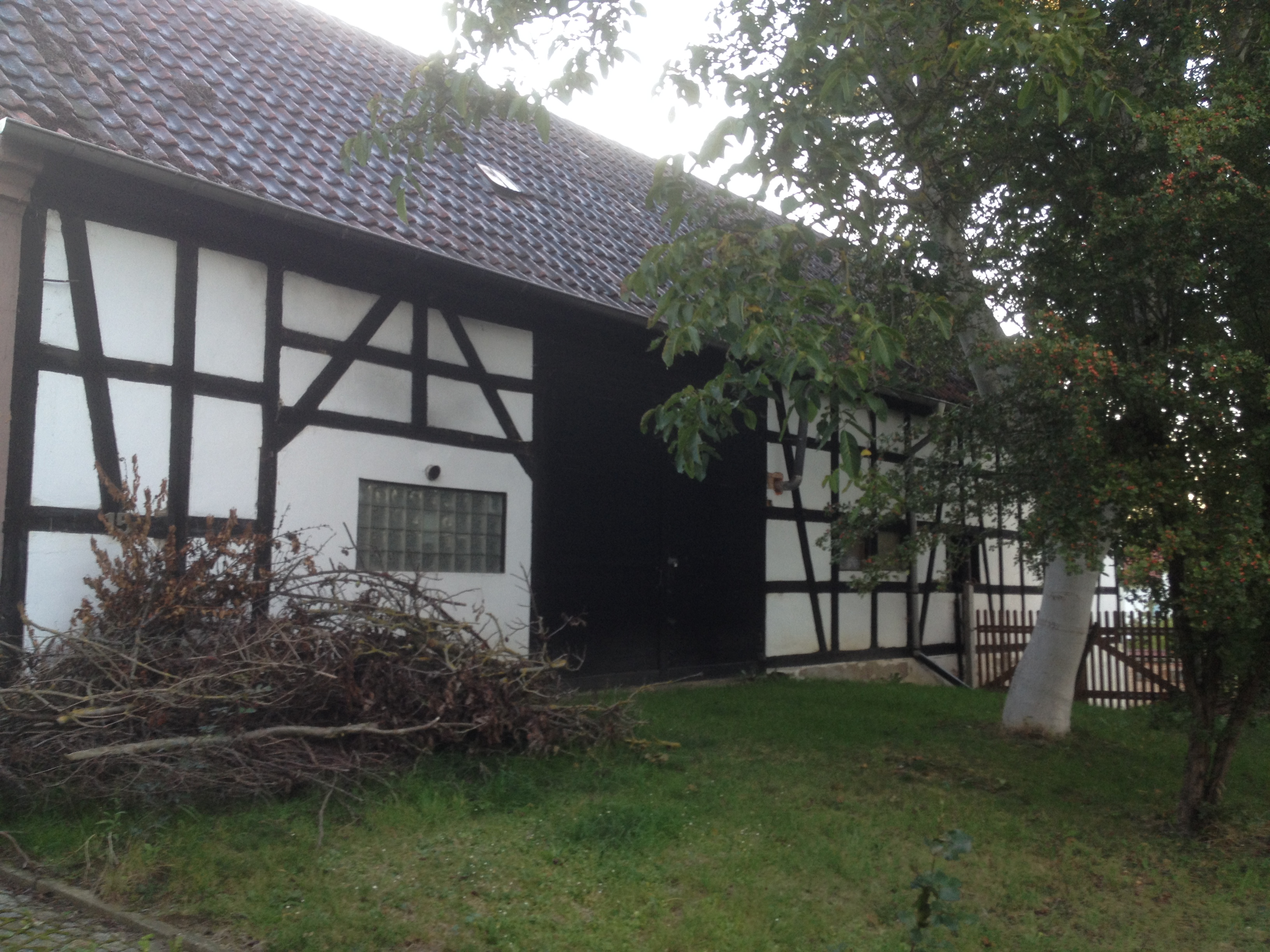 Old farmers house in Kauern